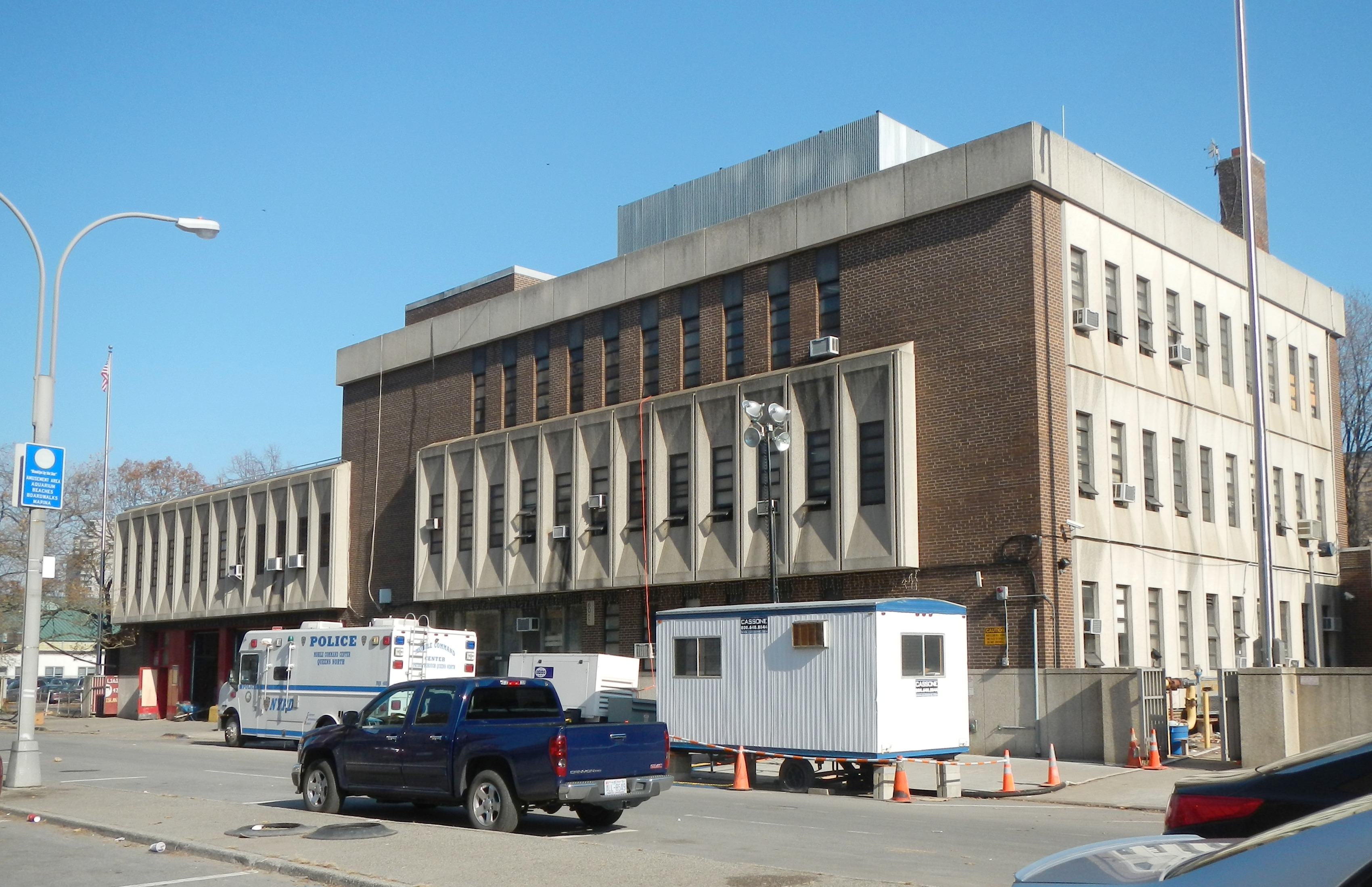 Looking east across West 8th Street at precinct house on a sunny midday after the hurricane.